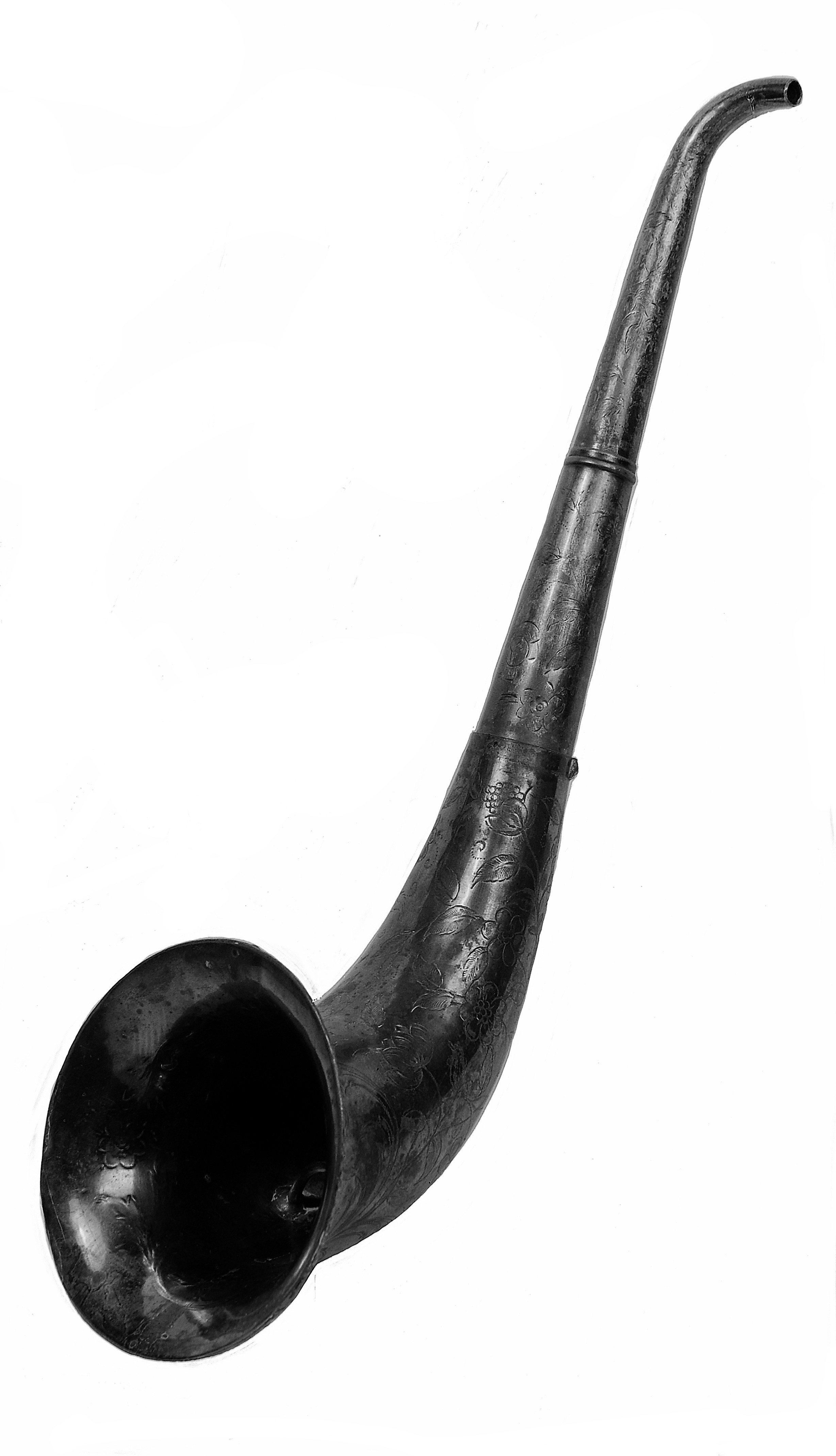 Portable ear trumpet with telescopic tubes. Signed F.C. Rein & Sons sole inventors and only makers; no 108, Strand, London. Wellcome Images Keywords: otology; Surgical Instruments